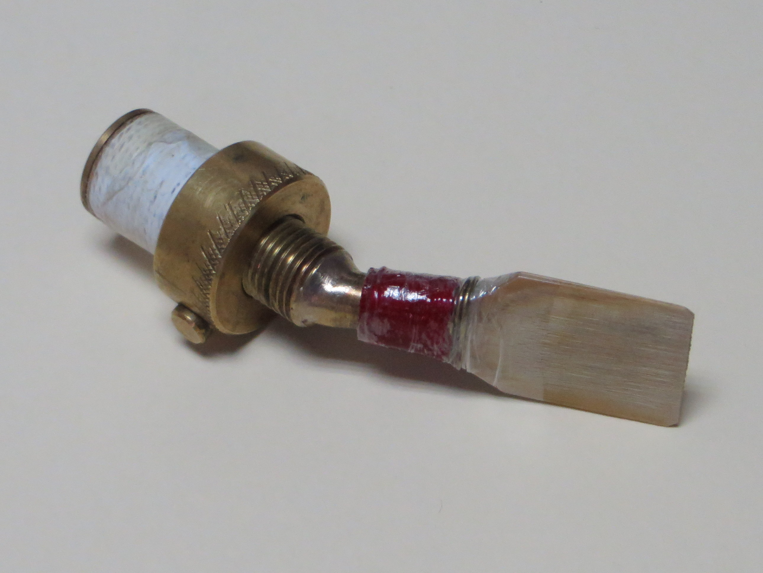 Tube bent downwards and gralla reed (which is also called "de pala" or "quadrada") suitable for the subbass gralla.